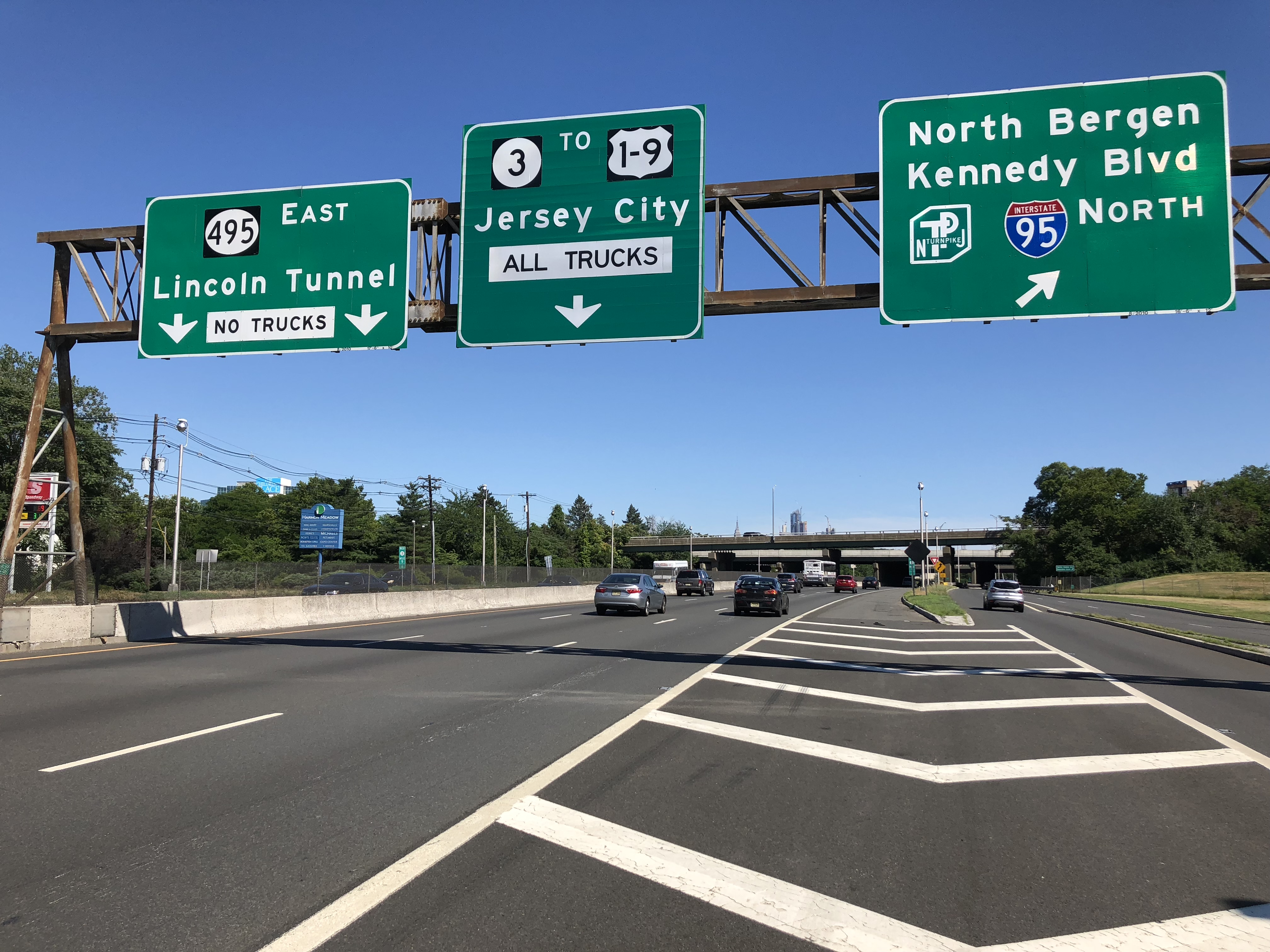 View east along New Jersey State Route 3 (Secaucus Bypass) at the exit for North Bergen, Kennedy Boulevard, and Interstate 95/New Jersey Turnpike NORTH in Secaucus, Hudson County, New Jersey